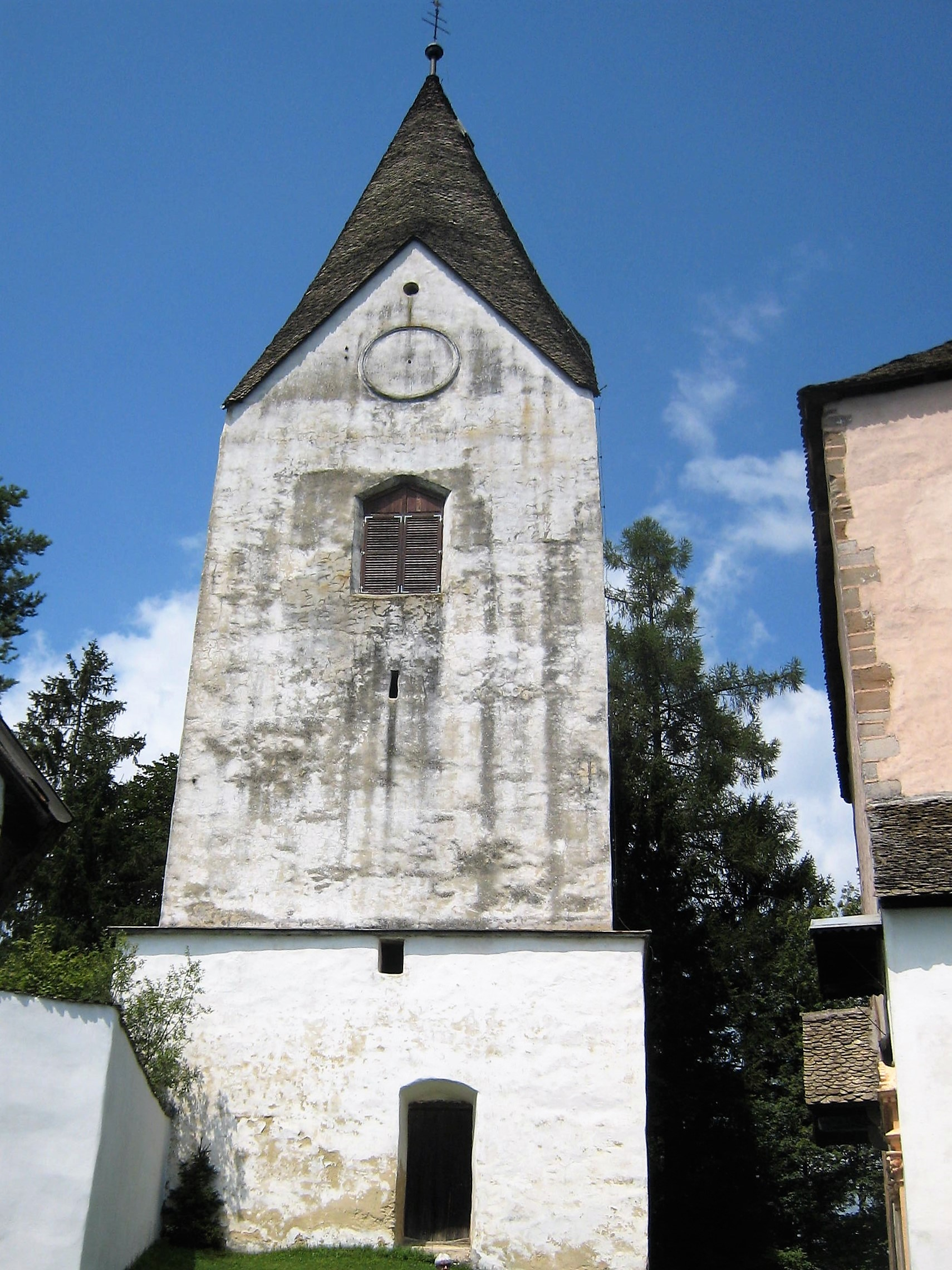 St. Pancras Parish Church, Slovenj Gradec: The tower